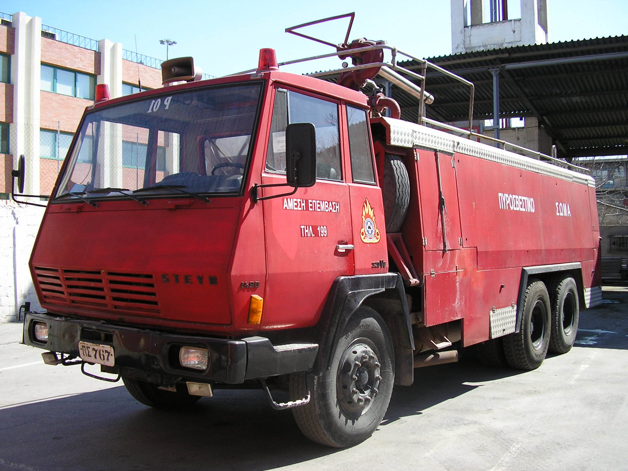 Vehicle of the Fire Service of Greece.